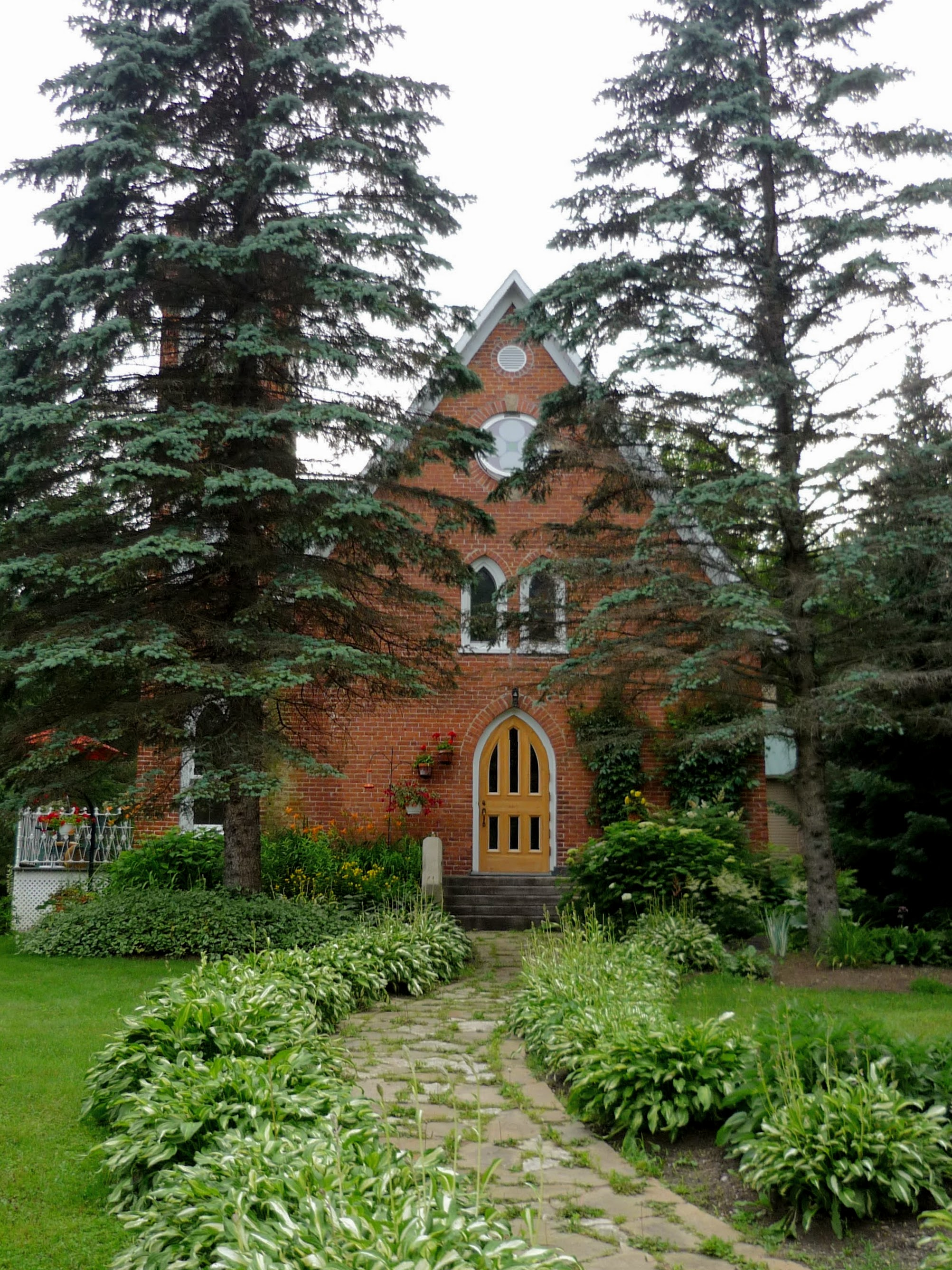 Church in Lac-Brome, Québec (Apparently converted in a house)